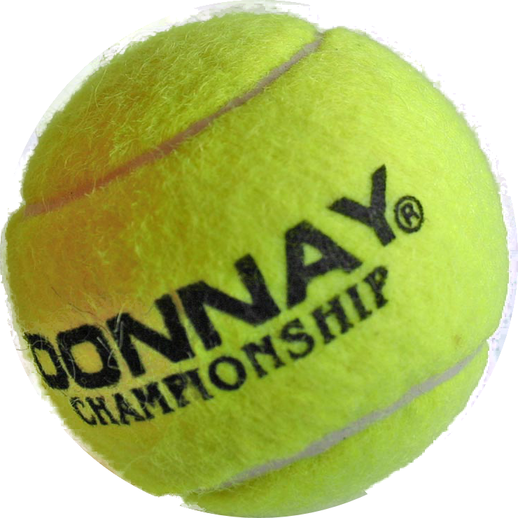 a tennis ball